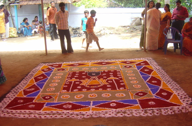 A beautiful kalam at the Andayil temple, Peruvamba.